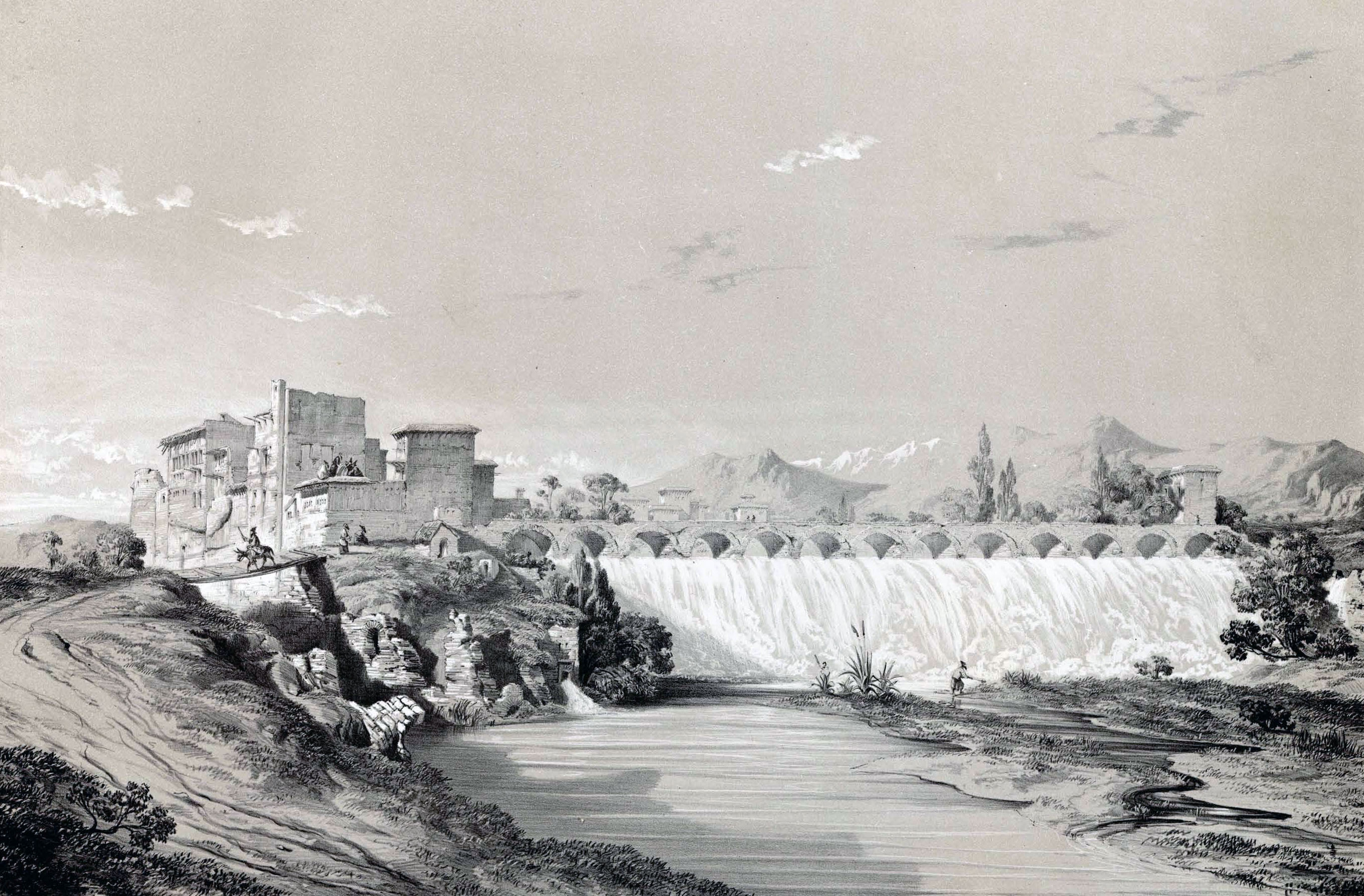 Spillway of Band Amir plain of Persepolis